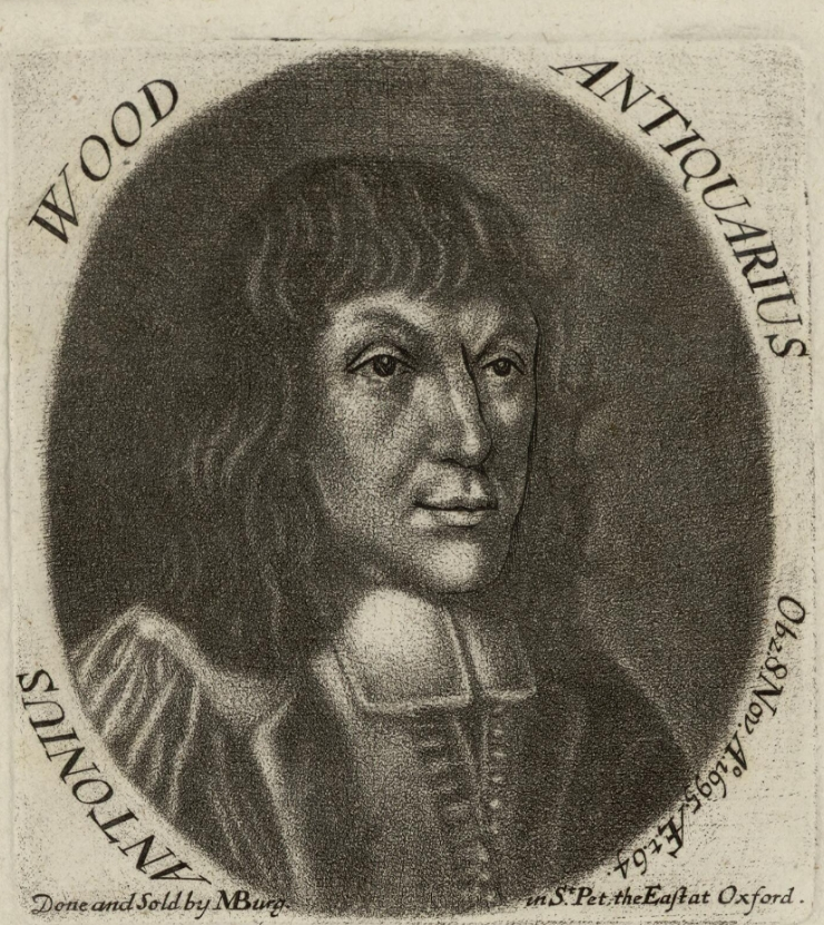 A portrait from the Welsh Portrait Collection at the National Library of Wales. Depicted person: Anthony Wood – English antiquarian